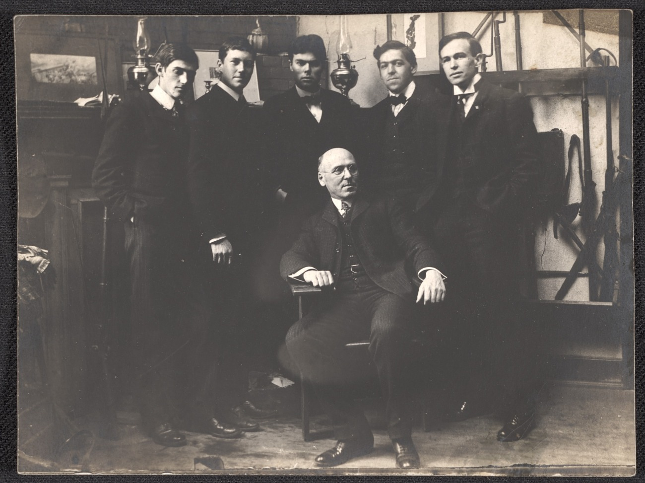 Howard Pyle and five of his students, circa 1903